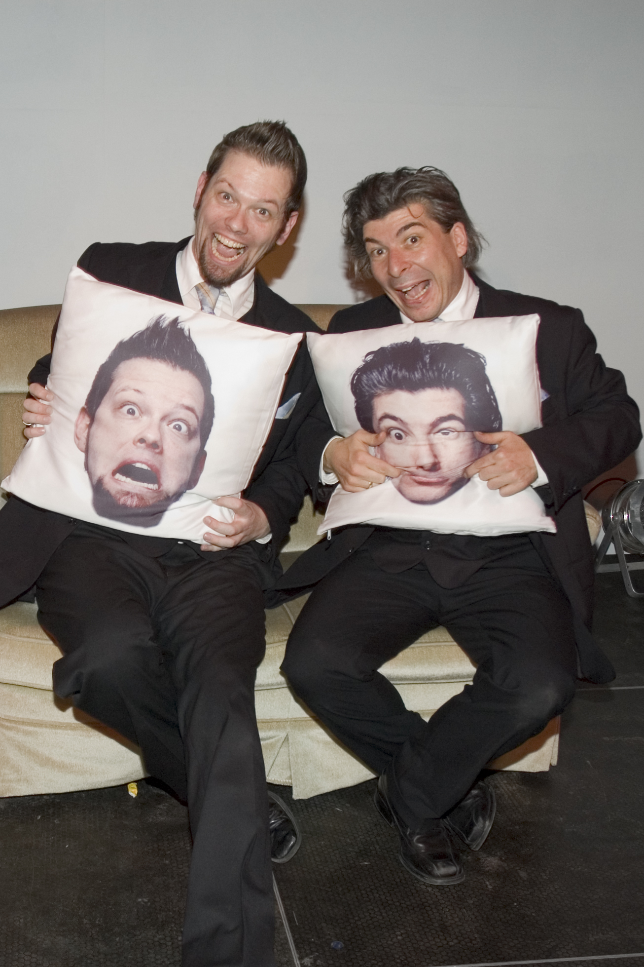 ONKeL fISCH, a German Comedy duo after their show "ONKeL fISCH auffem Sofa" in Meerbusch